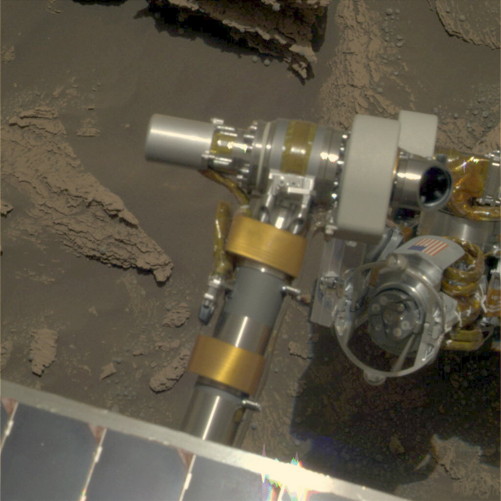 Rock abrasion tool, also known as "rat" (circular device in center), located on the rover's instrument deployment device, or "arm."